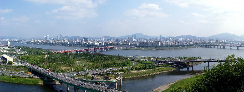 Seoul from the sky